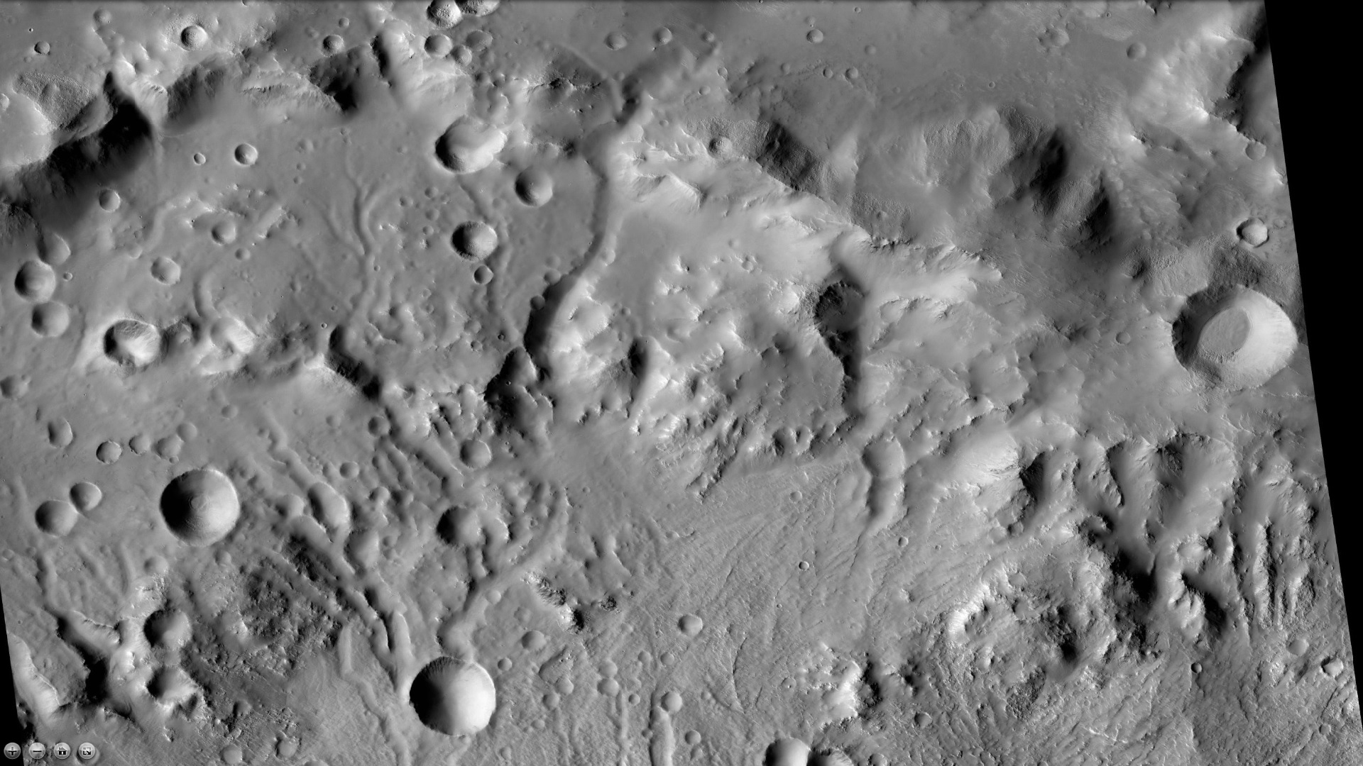 Peridier Crater showing channels, as seen by ctx